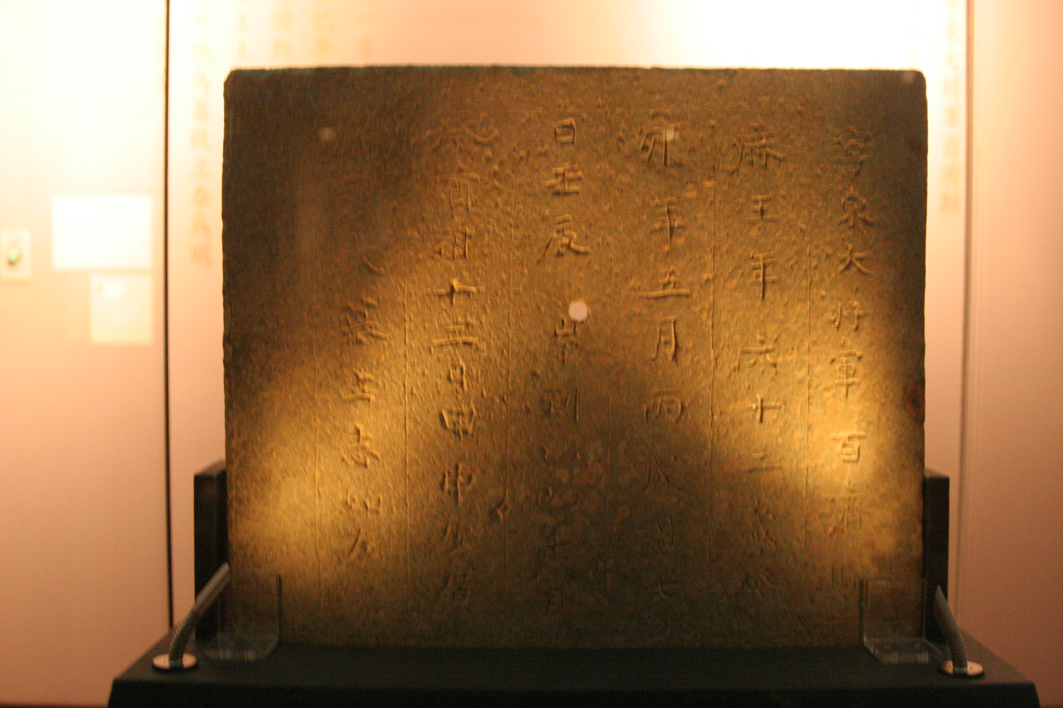 A rare tomb epigraph from King Muryeong's tomb.